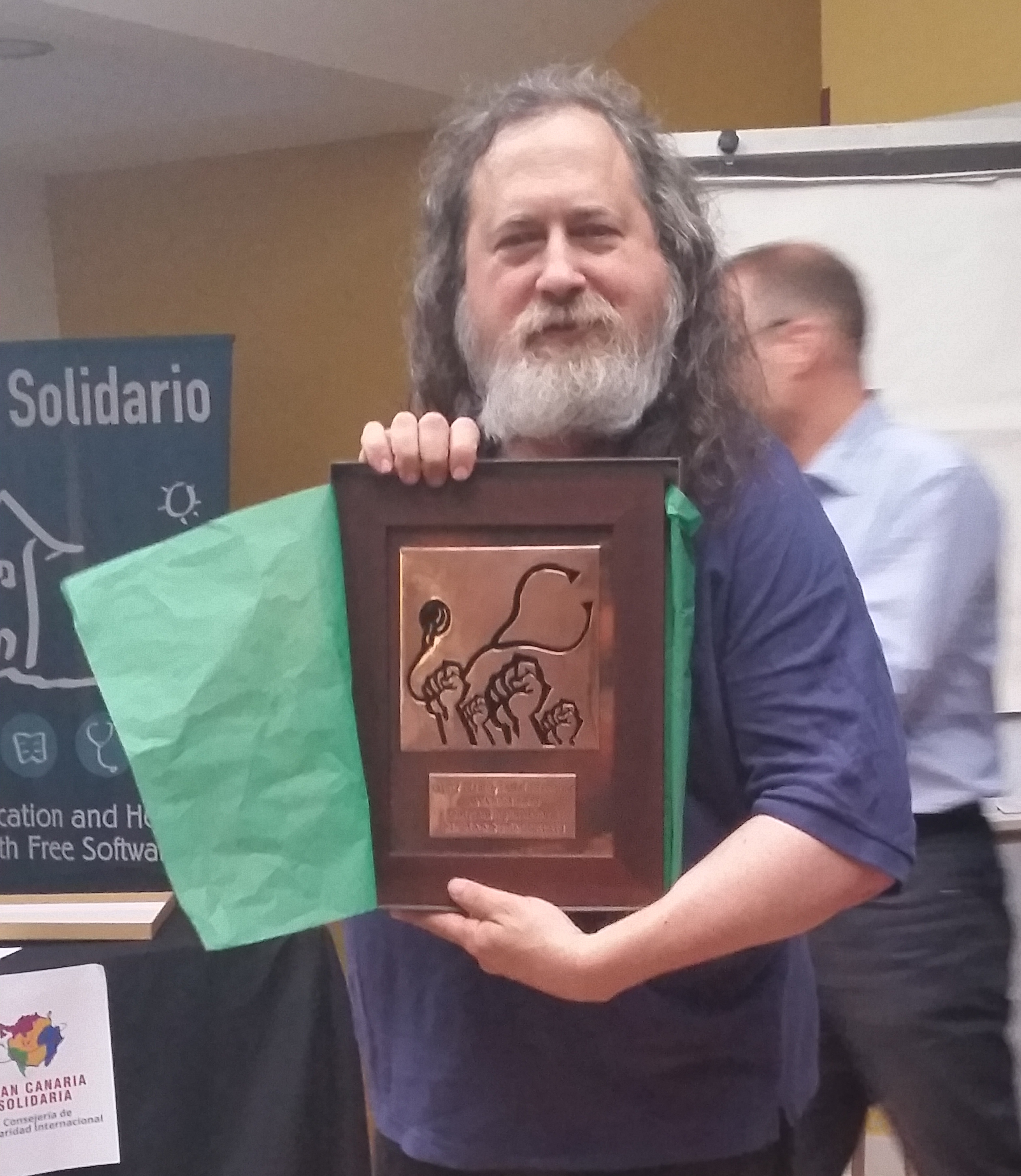 Richard Stallman showing the GNU Solidario Social Medicine for outstanding individual Award at IWEEE 2016